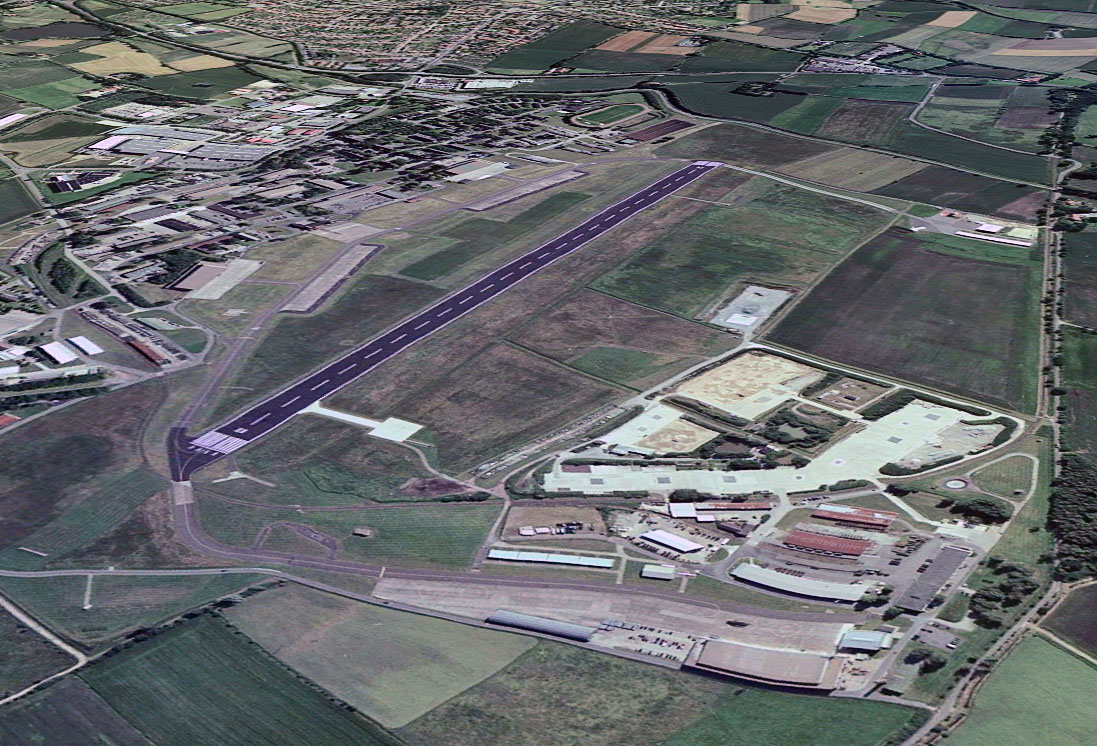 Fliegerhorst Diepholz